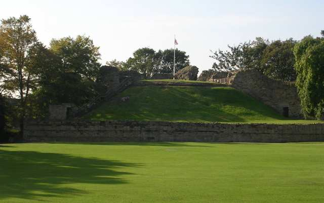 The Motte - Pontefract Castle